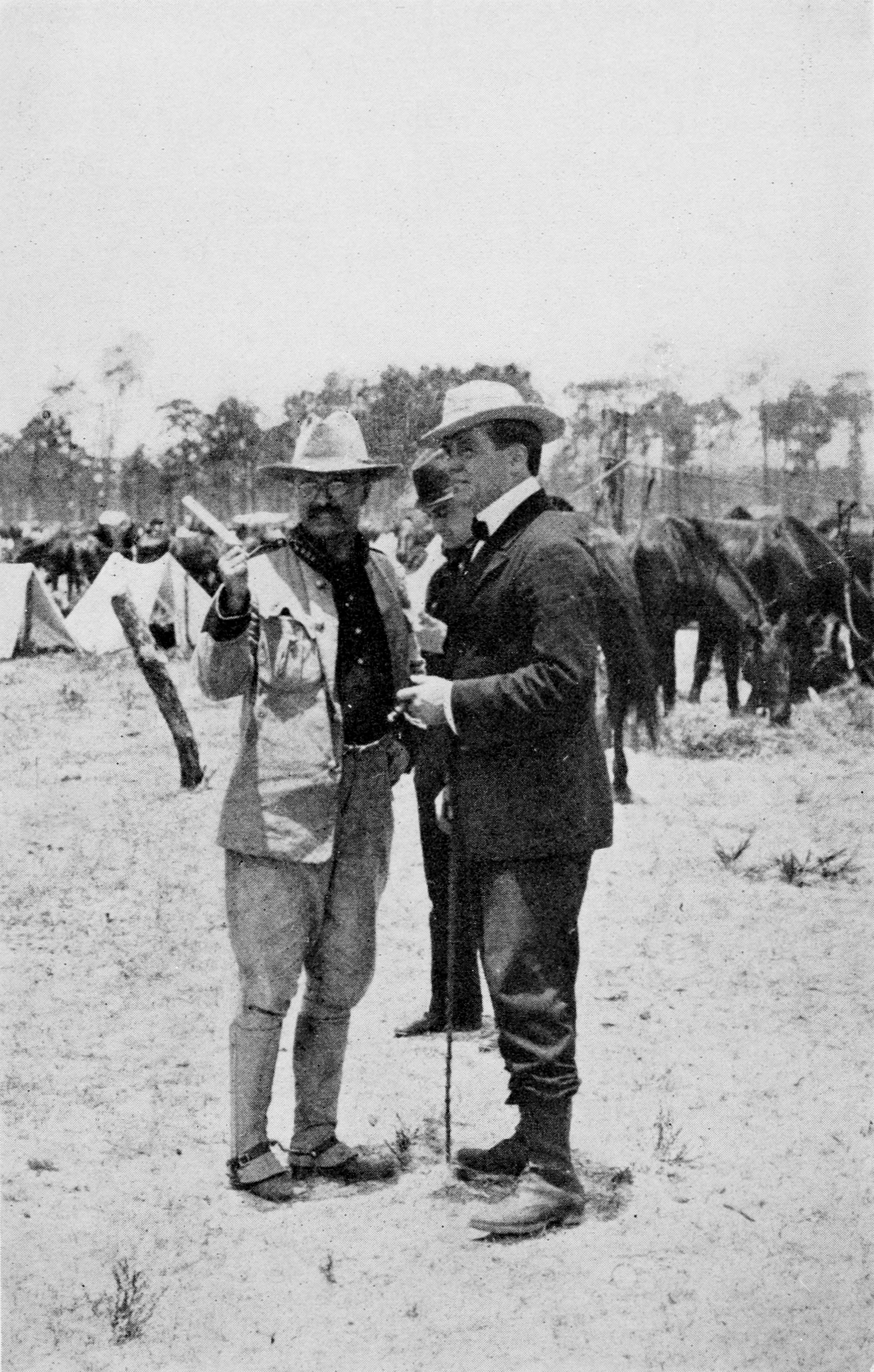 Colonel Theodore Roosevelt in Cuba with the writer Richard Harding Davis, 1898.